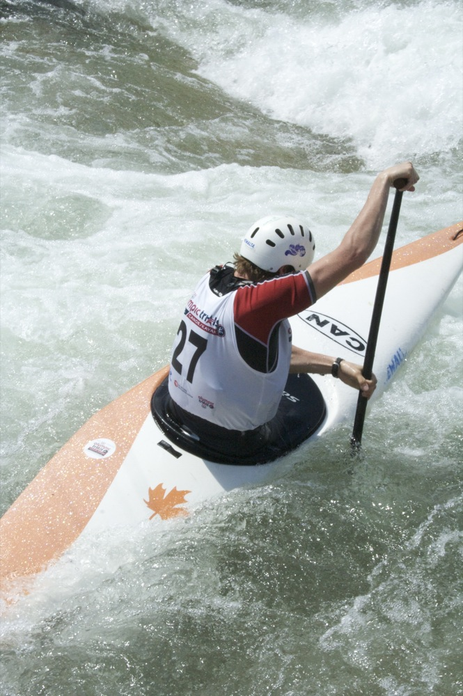 A canoeist (C-1) at the US Olympic Whitewater Slalom team trials paddles off side (i.e. not on the side the paddle is usually on, i.e. not on the side of the arm that is closer to the paddle blade)